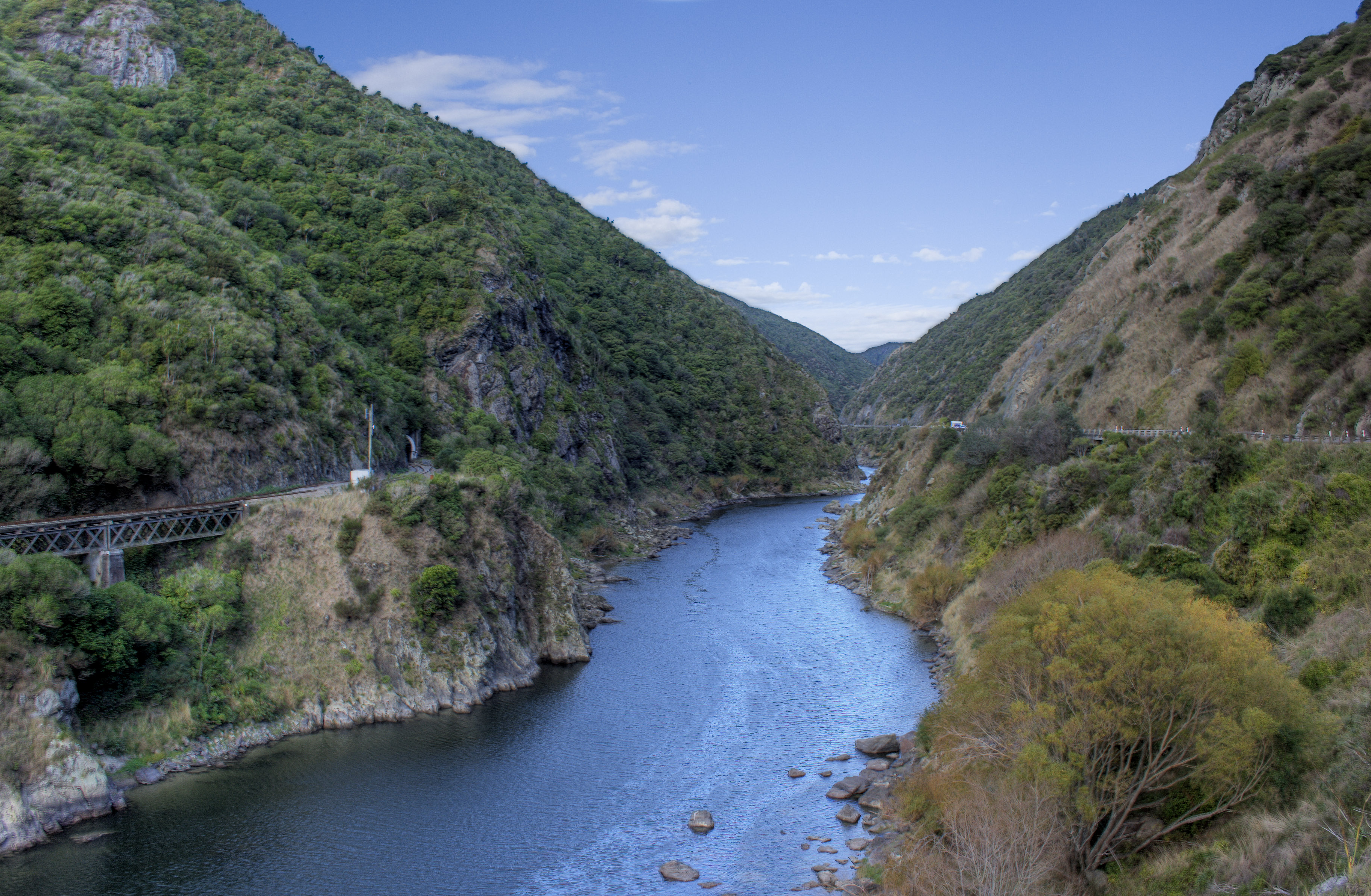 View of the Manawatu Gorge, Manawatu River, New Zealand.